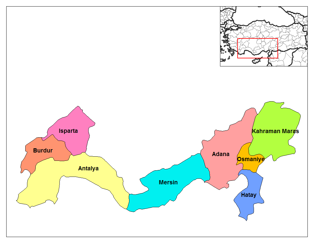 Map of the Mediterranean Region of Turkey. Created by Rarelibra 17:15, 17 November 2006 (UTC) for public domain use, using MapInfo Professional v8.5 and various mapping resources.